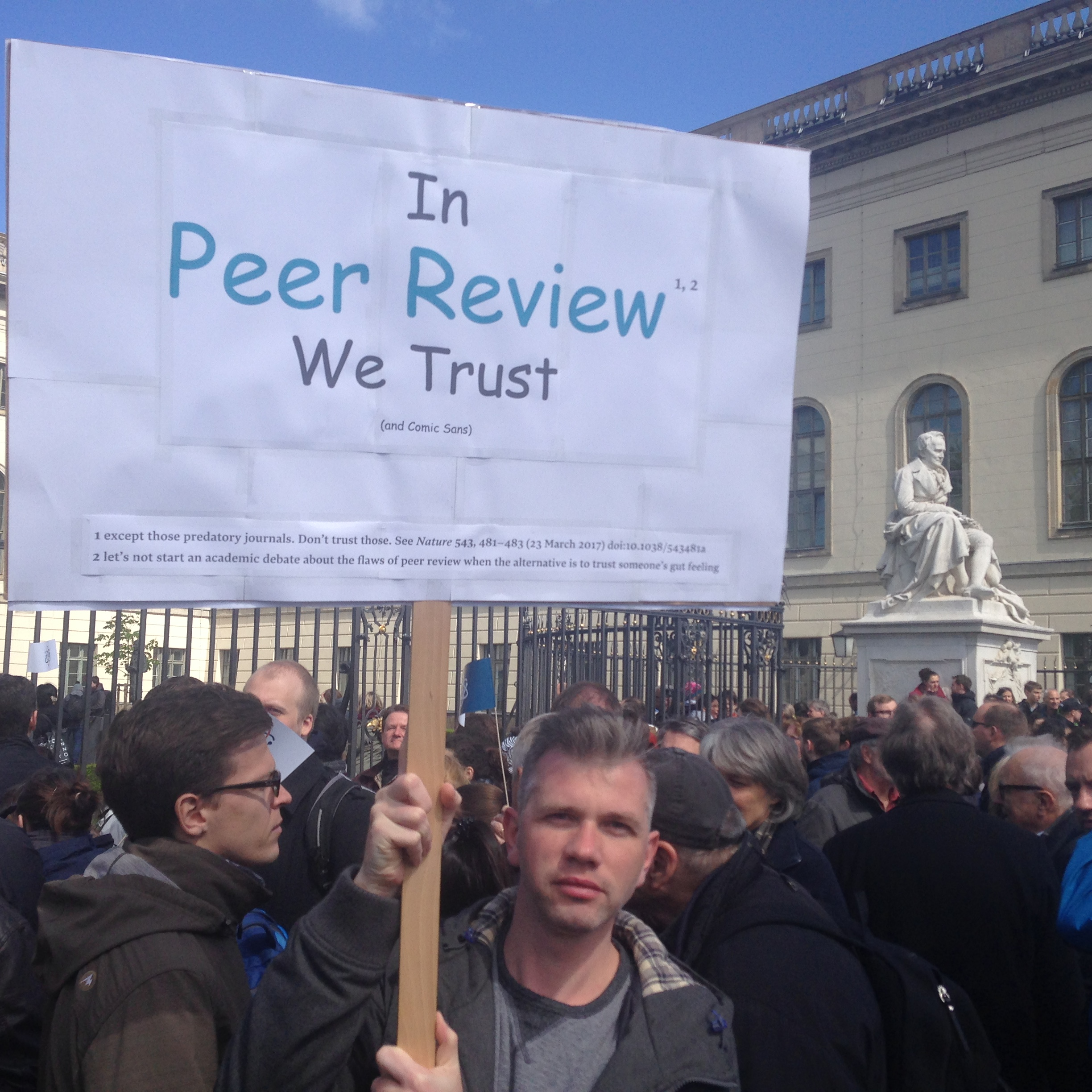 Roughly 11,000 people supporting the international Science March filled the street outside Humbolt University - Berlin on April 22nd. The international protest was in support of funding for climate change research and keeping political interference out of scientific research.